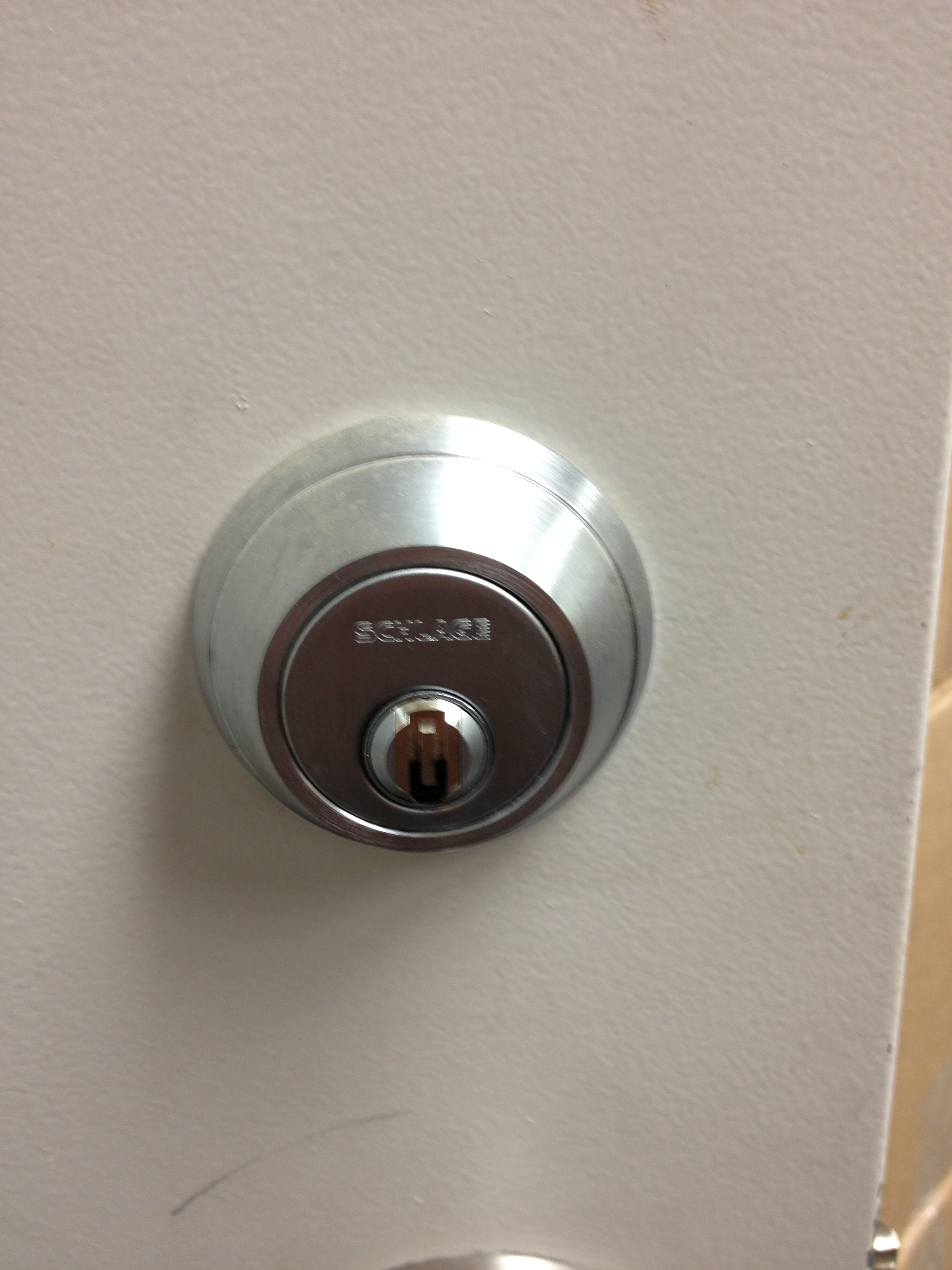 deadblot